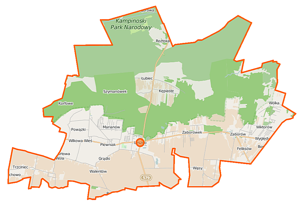 Map of Gmina Leszno, Poland This map of Leszno (gmina wiejska) was created from OpenStreetMap project data, collected by the community. This map may be incomplete, and may contain errors. Don't rely solely on it for navigation. Border coordinates52.337220.4617←↕→20.738852.2217